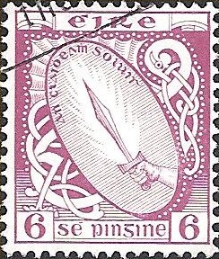 1922/3 Ireland definitive 6p postage stamp showing An Claidheamh Soluis (The Sword of Light).